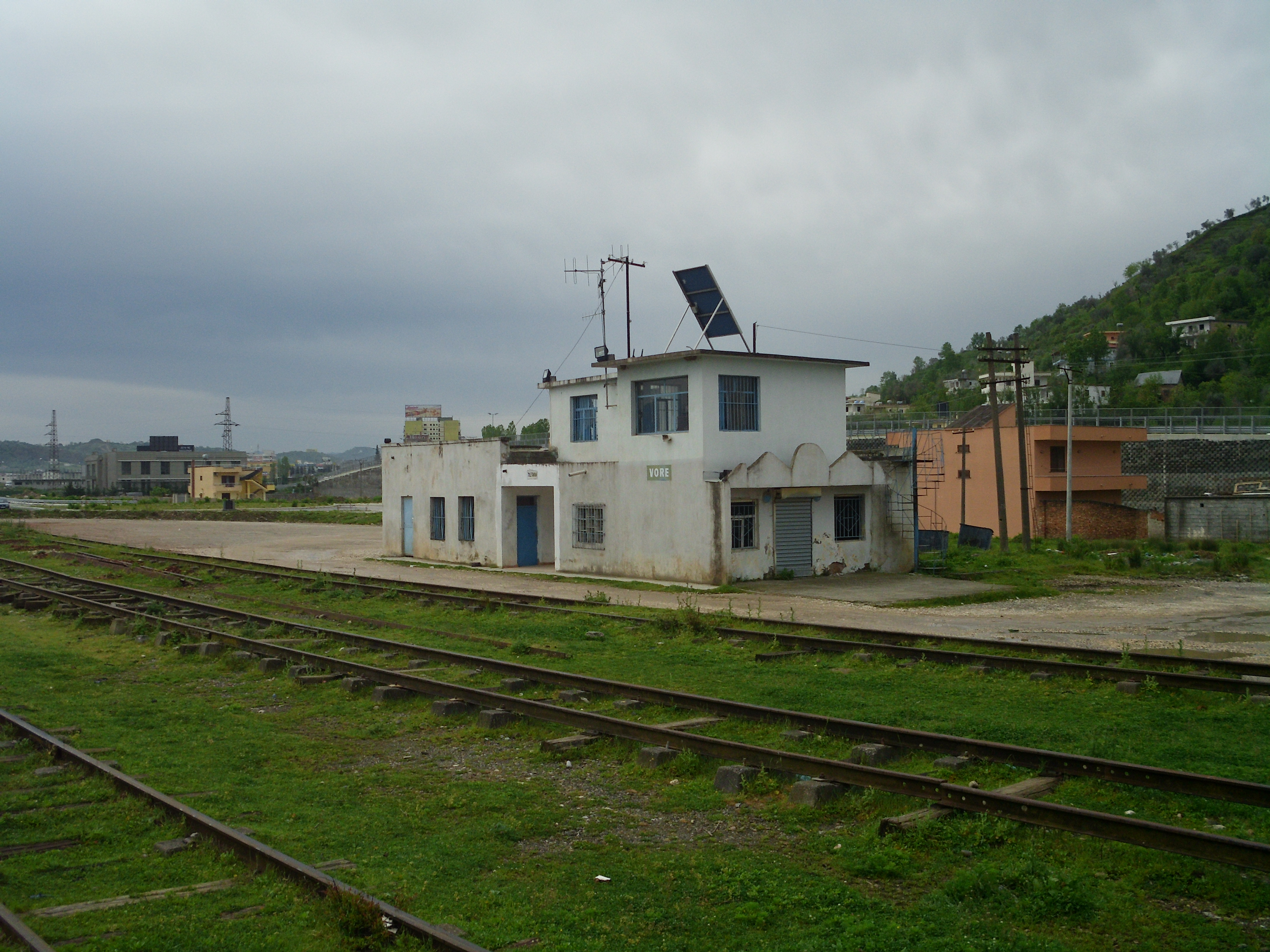 Building of a train station in Vorë, Albania